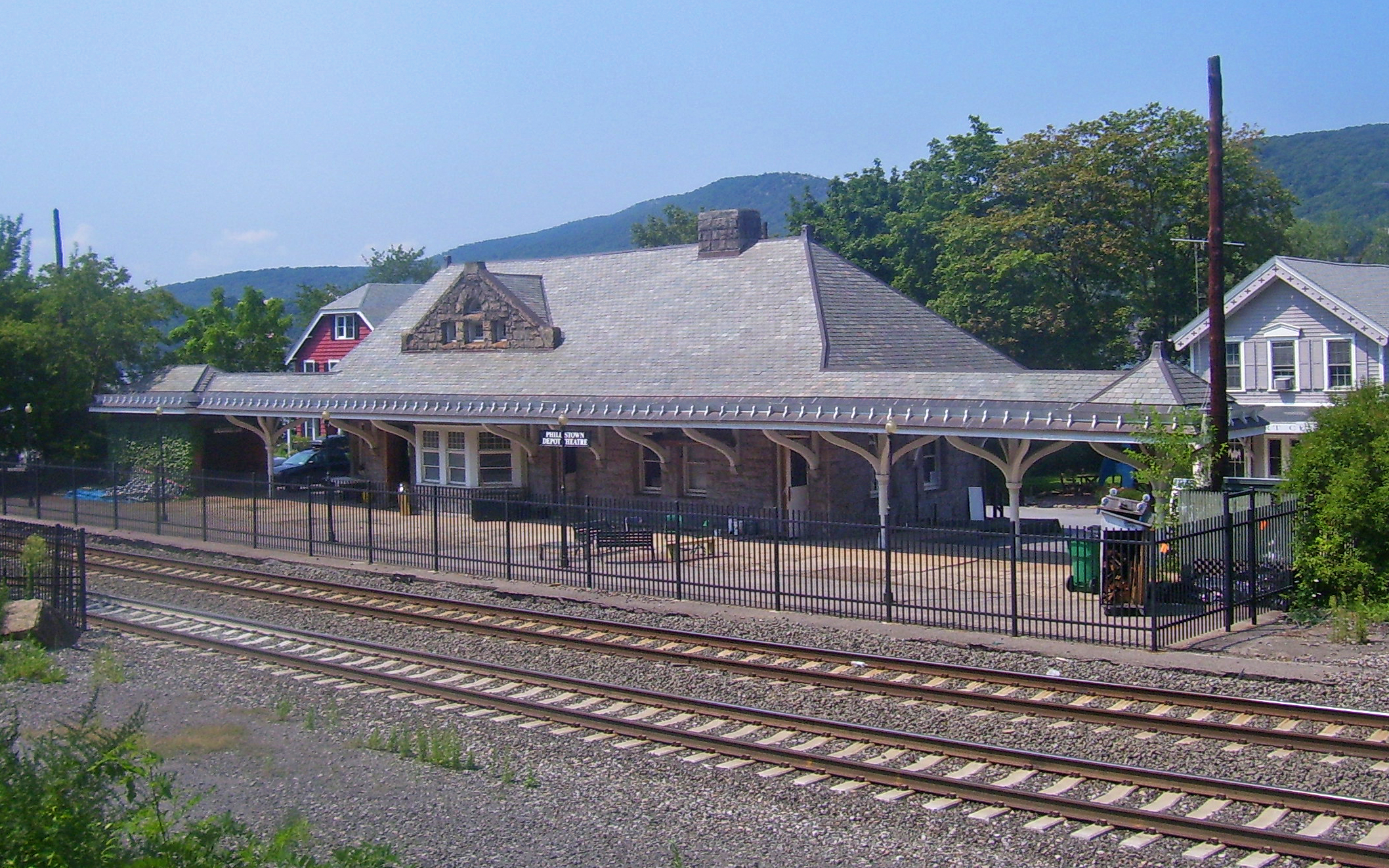 Former train station at Garrison, New York, USA. Now home to a community theatre group. A contributing property to the Garrison Landing Historic District.